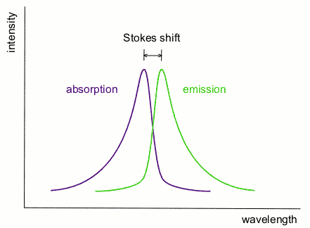 Simple scheme of the Stokes shift. Drawn in Sodipodi by user Mykhal.